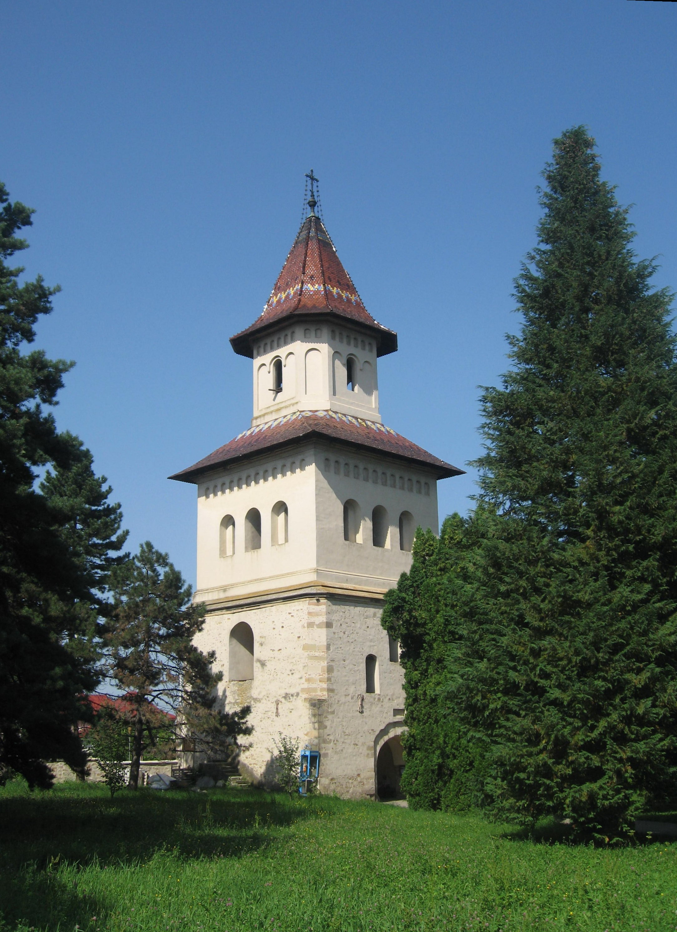 St. John the New Monastery in Suceava - the bell tower.